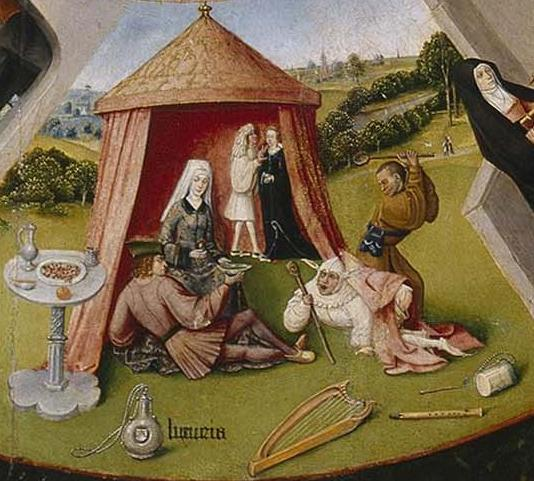 Table of the Mortal Sins [detail: Luxuria (lechery/lust)].